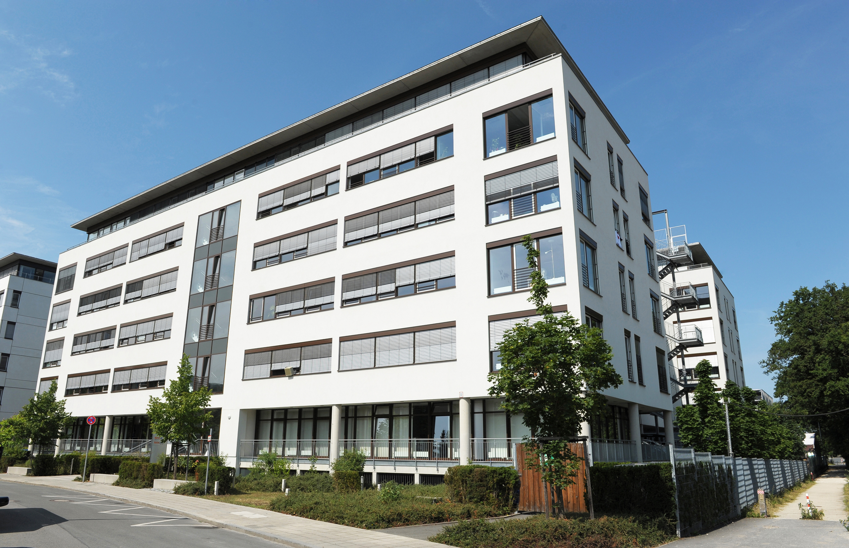 Headquarters of hotel.de in Nuremberg